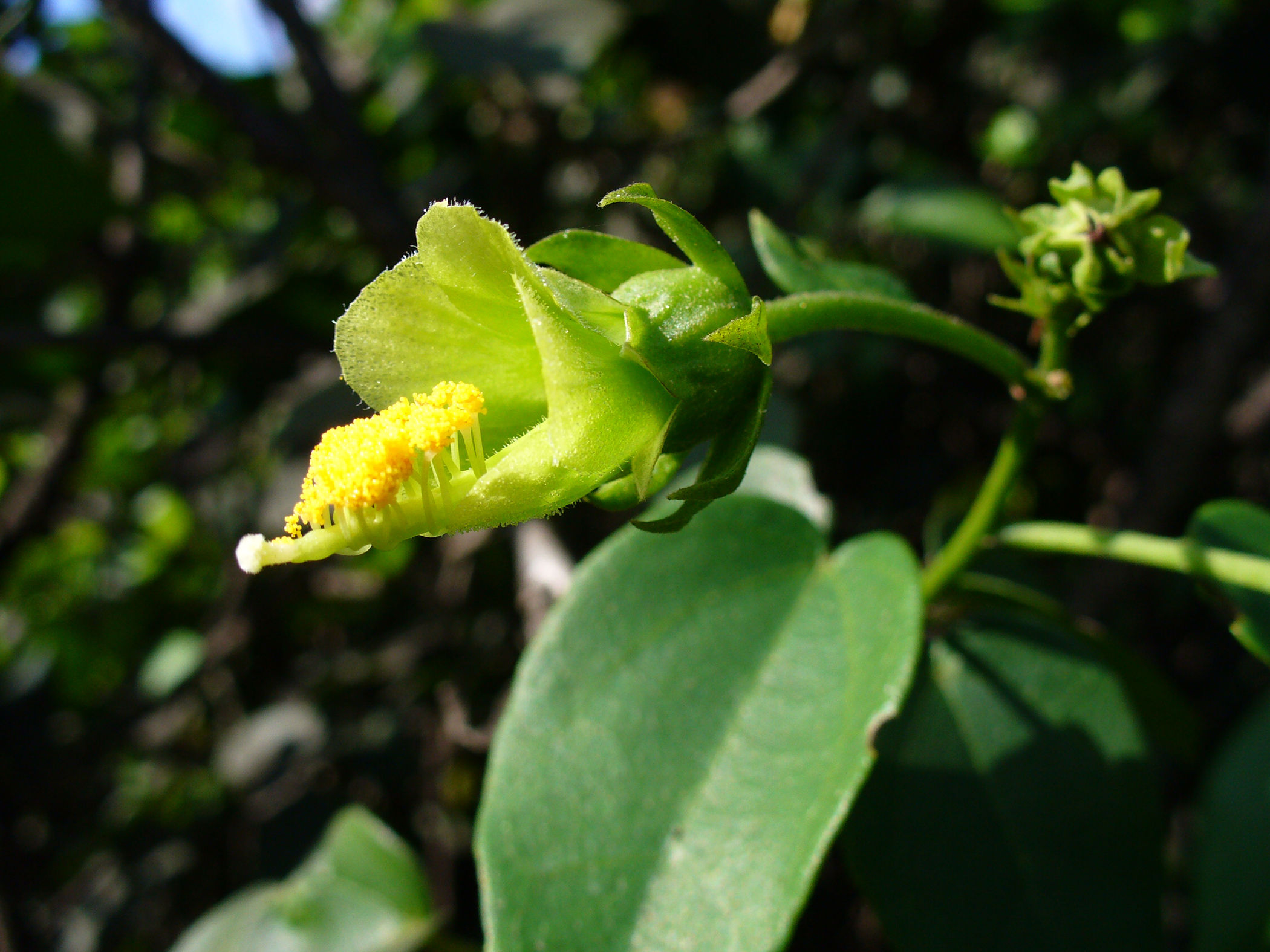 Fairchild Tropical Botanic Garden, Miami, Florida, USA. Photo by T.H. Chow. Hummingbirds love this plant!